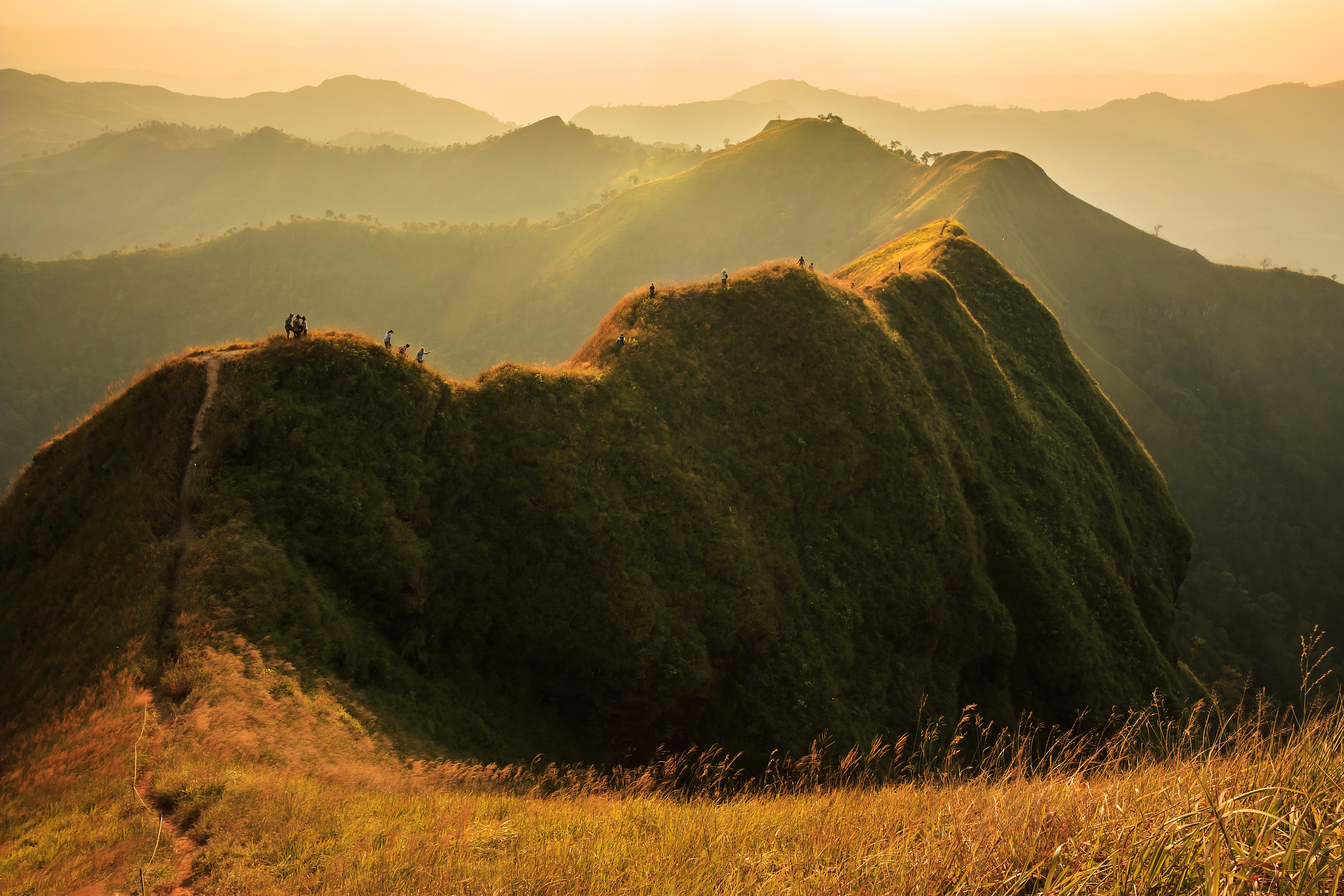 อุทยานแห่งชาติทองผาภูมิ